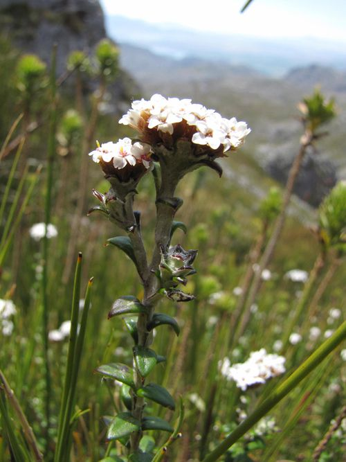 Anaxeton ellipticum observed in South Africa